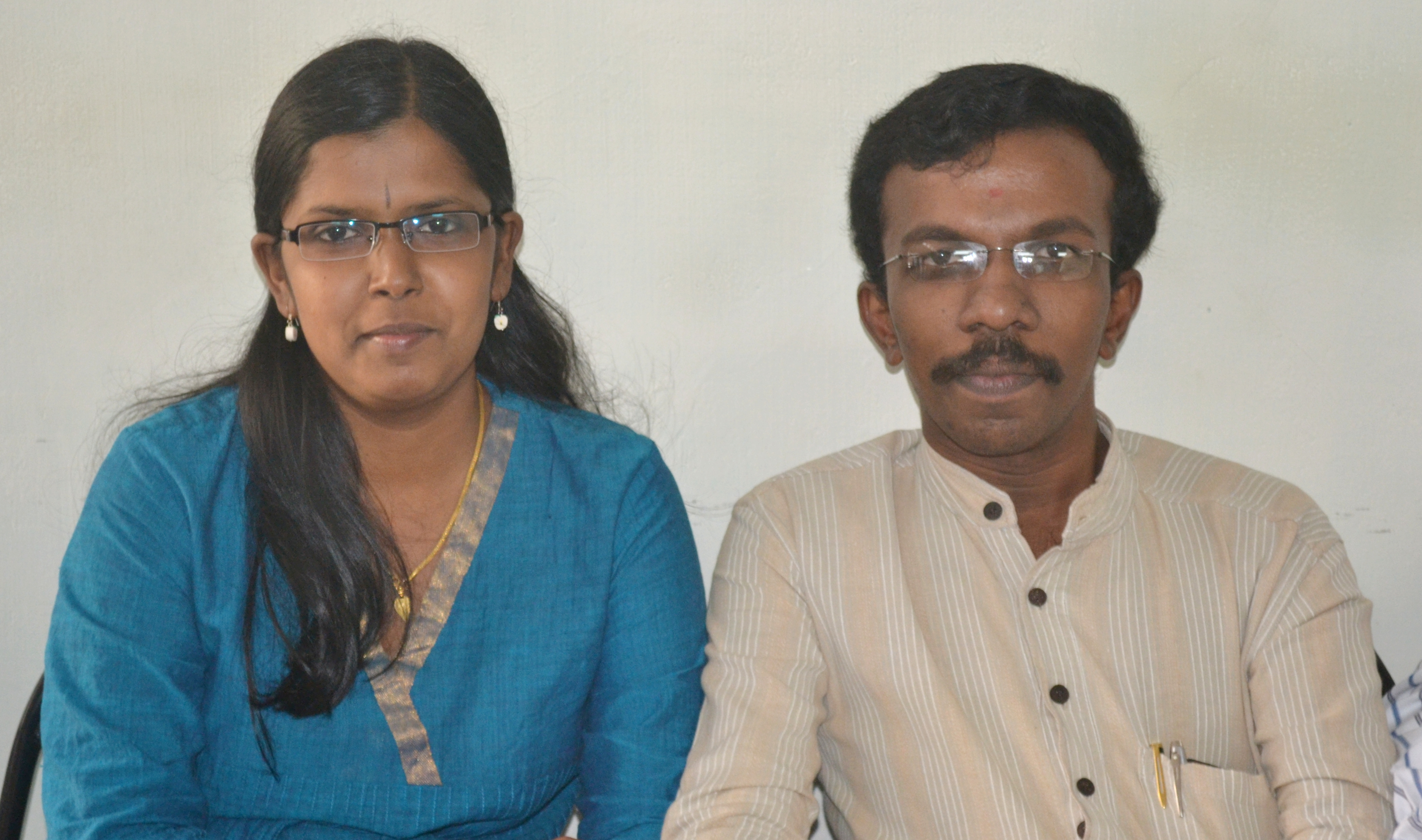 user:Adarshkpillai & Seema(wife)